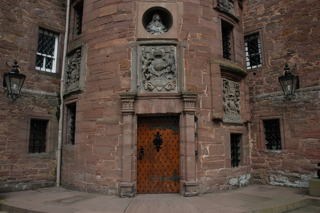 Entrance to Glamis Castle